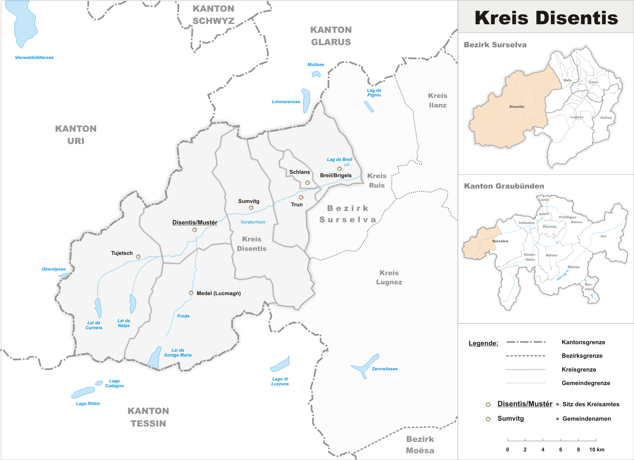 Municipalities in the circle of Disentis